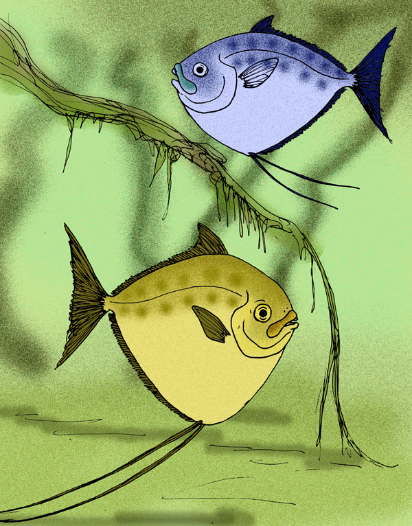 My reconstructions of the Eocene moonfish, Mene oblonga (Mene oblonga) (above), and Mene rhombea (Mene rhombea) (below), from the Monte Bolca lagerstätte. (c) Stanton F. Fink